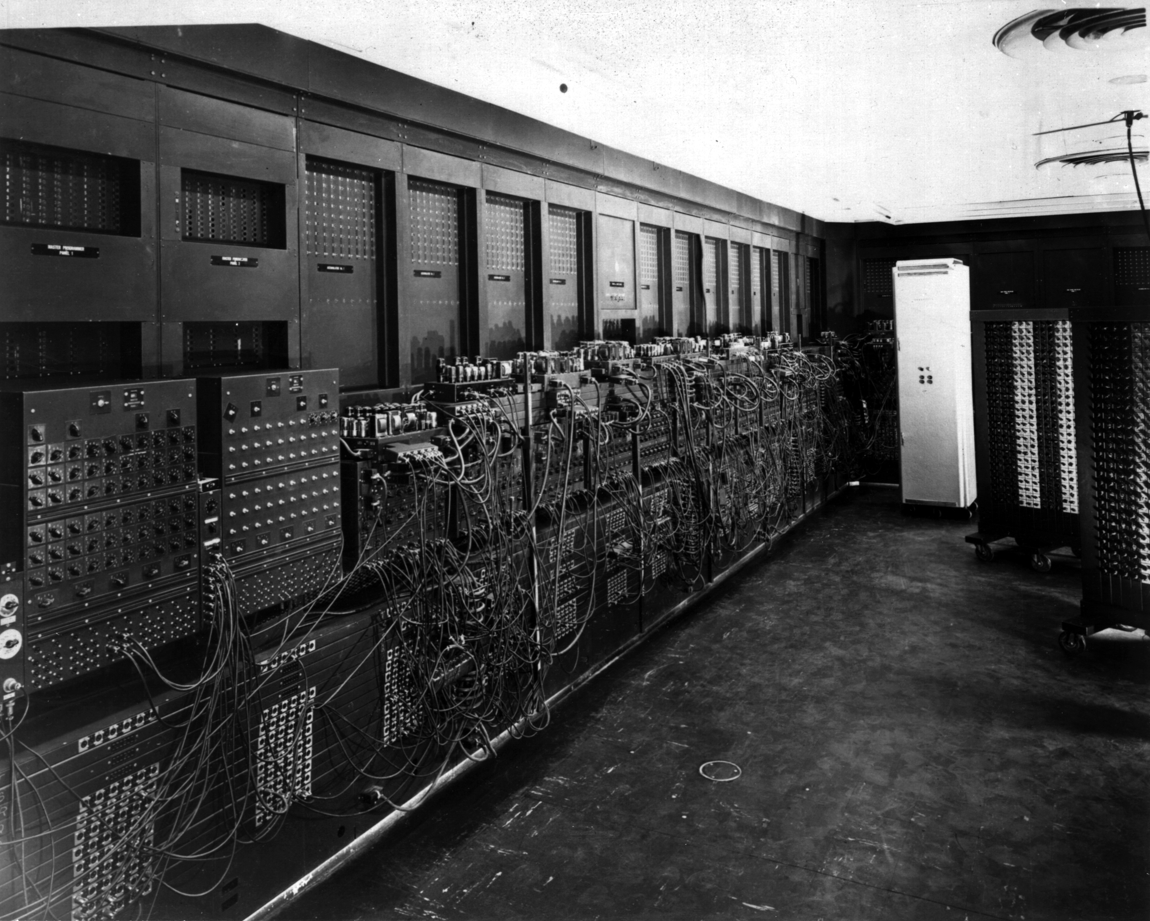 Photo of left side of ENIAC as installed in BRL Bldg 328. The white cabinet in the rear is the core memory, a late addition. 'U.S. Army Photo' from the archives of the ARL Technical Library.